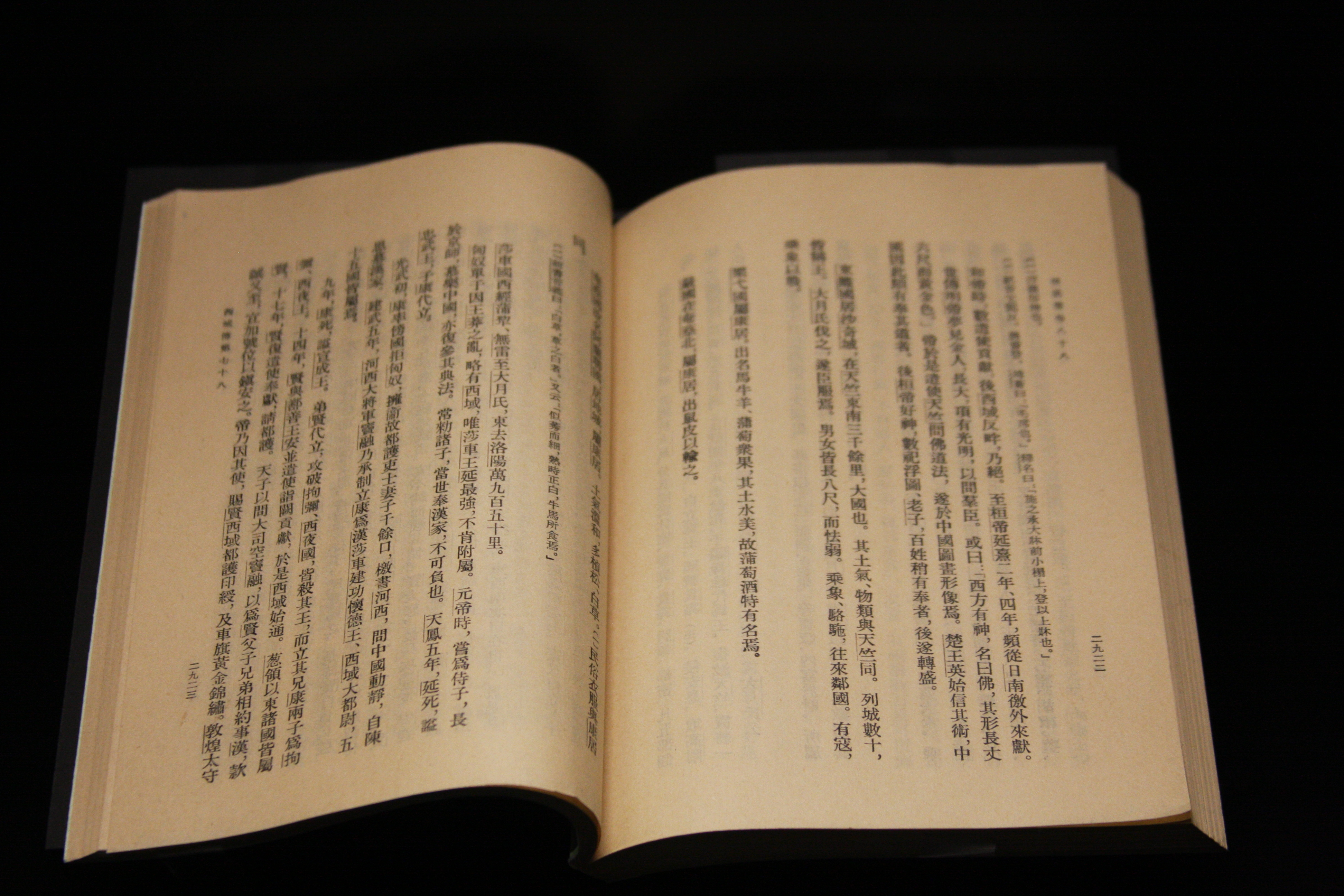 Reprint of Description of the Arrival of Buddhism in China, 66 A.D., in: Chronicle of the Later Han Dynasty 88. Östasiatiska Museet, Stockholm.